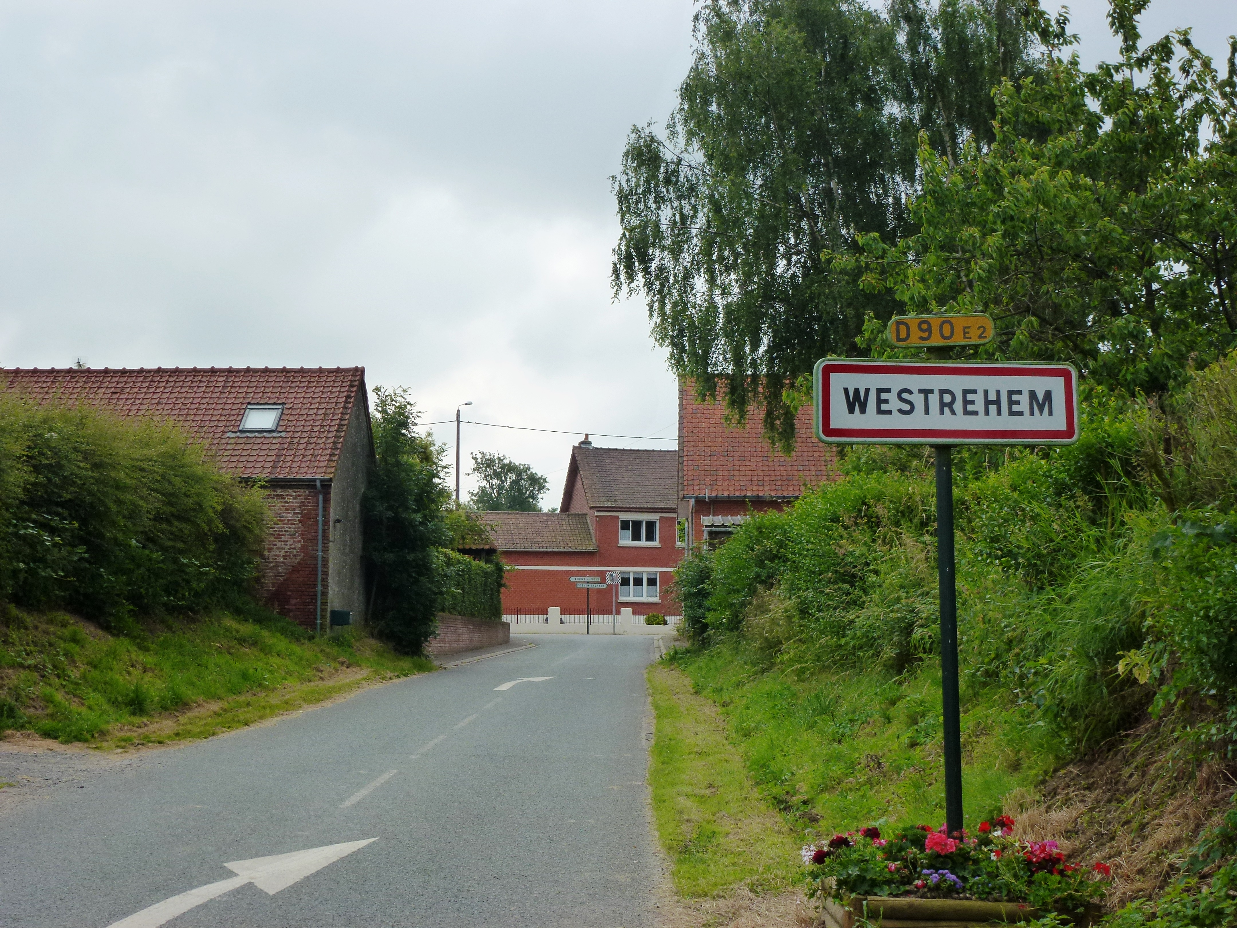 Westrehem (Pas-de-Calais, Fr) city limit sign